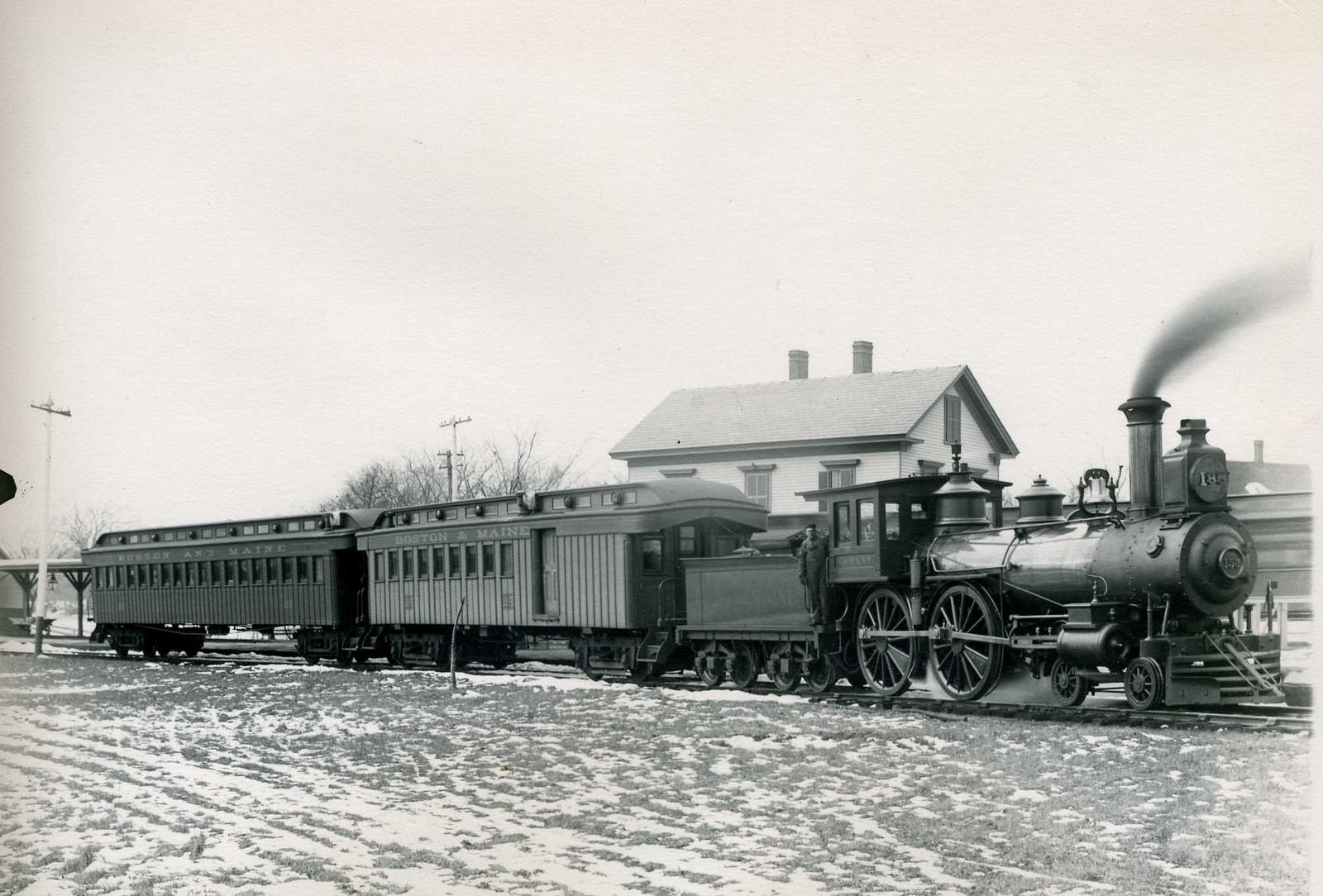 Locomotive Nahant, built as Eastern Railroad #53, on the Essex Branch at Wenham in January 1892. The locomotive would soon lose its name - around that time the B&M abolished names. It was sold in 1899.